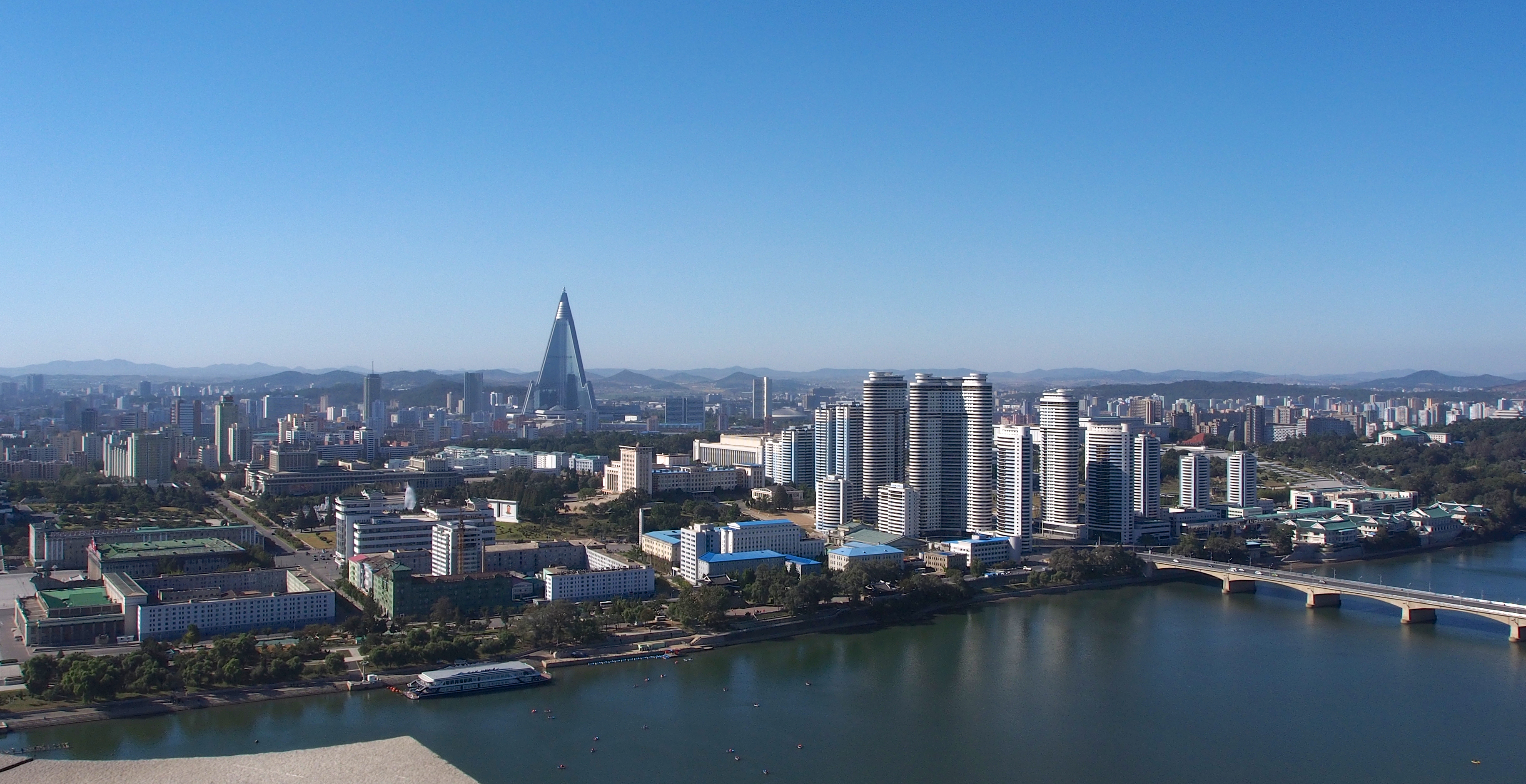 Pyongyang, DPRK Looking across the Taedong River from the Juche Tower. Young Pioneer Tours 2013 Chinese National Day Tour. For a video of the trip made by the DPRK tourists authority take a look at